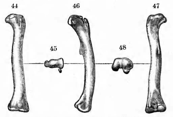 Left femur of Othnielia (Nanosaurus) rex.